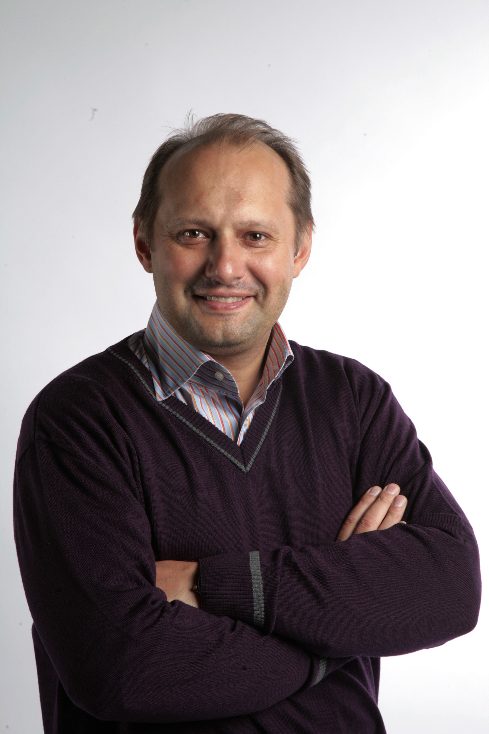 Andrey Antropov, 8-time USSR Champion,2-time European champion, deputy chief of the Russian badminton federation